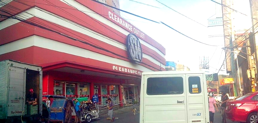 SM Clearance Store, also known as SM Quiapo.